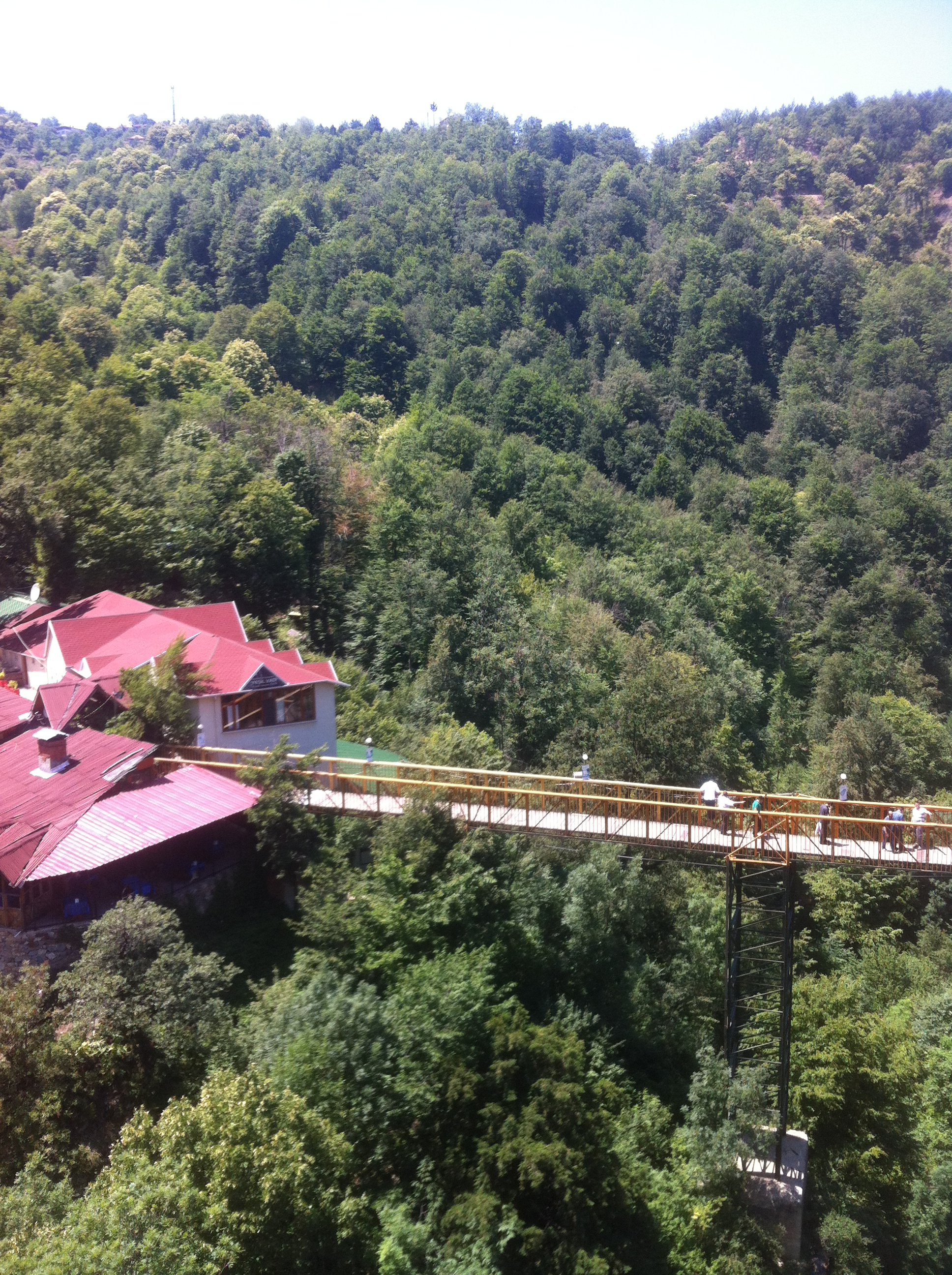 Oylat village. SPA center